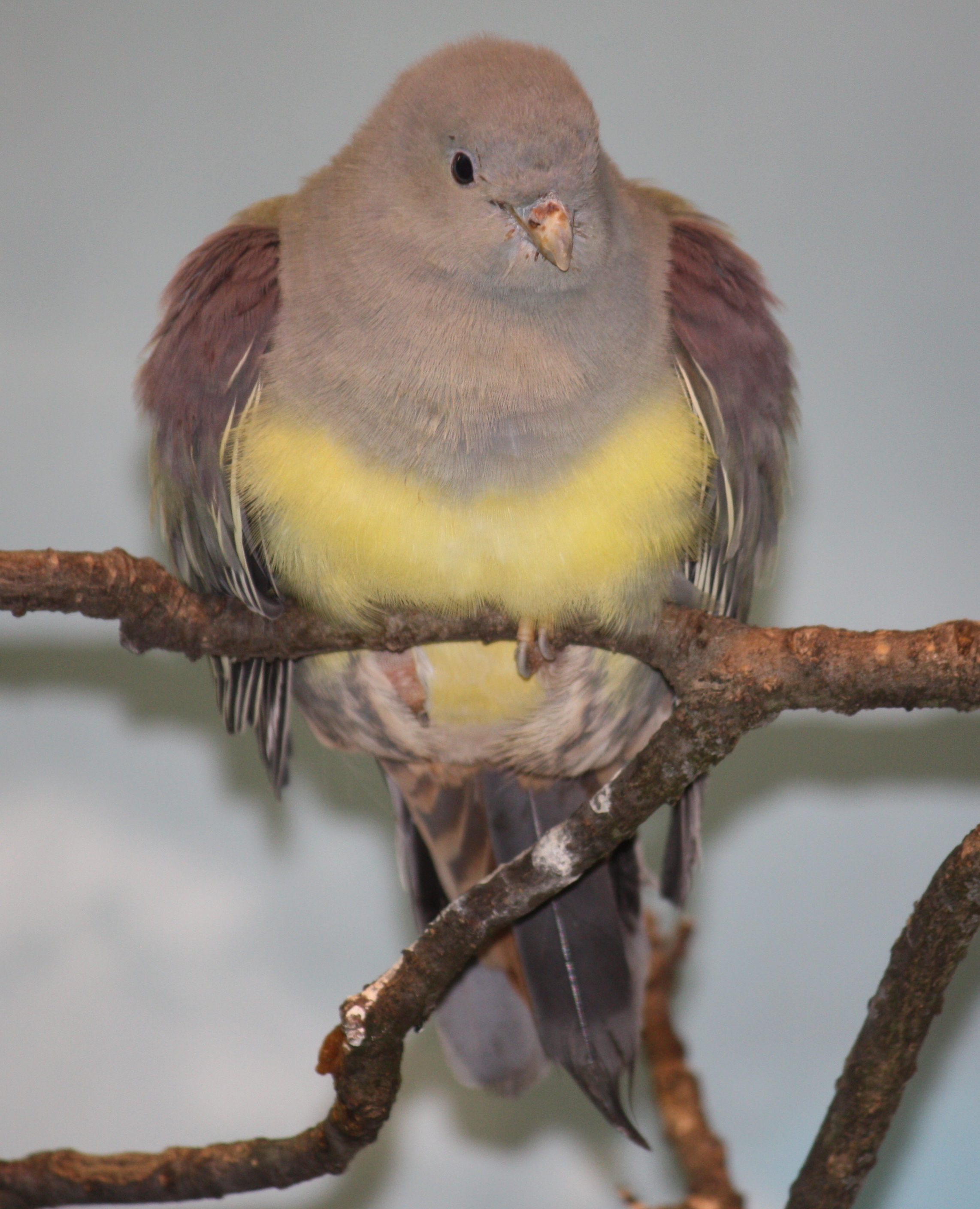 Bruce's Green Pigeon Treron waalia at Cincinnati Zoo